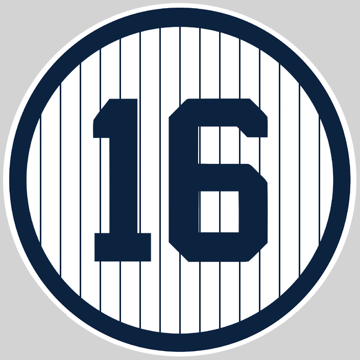 Image represents the current version of Whitey Ford's No. 16 seen in Monument Park in Yankee Stadium